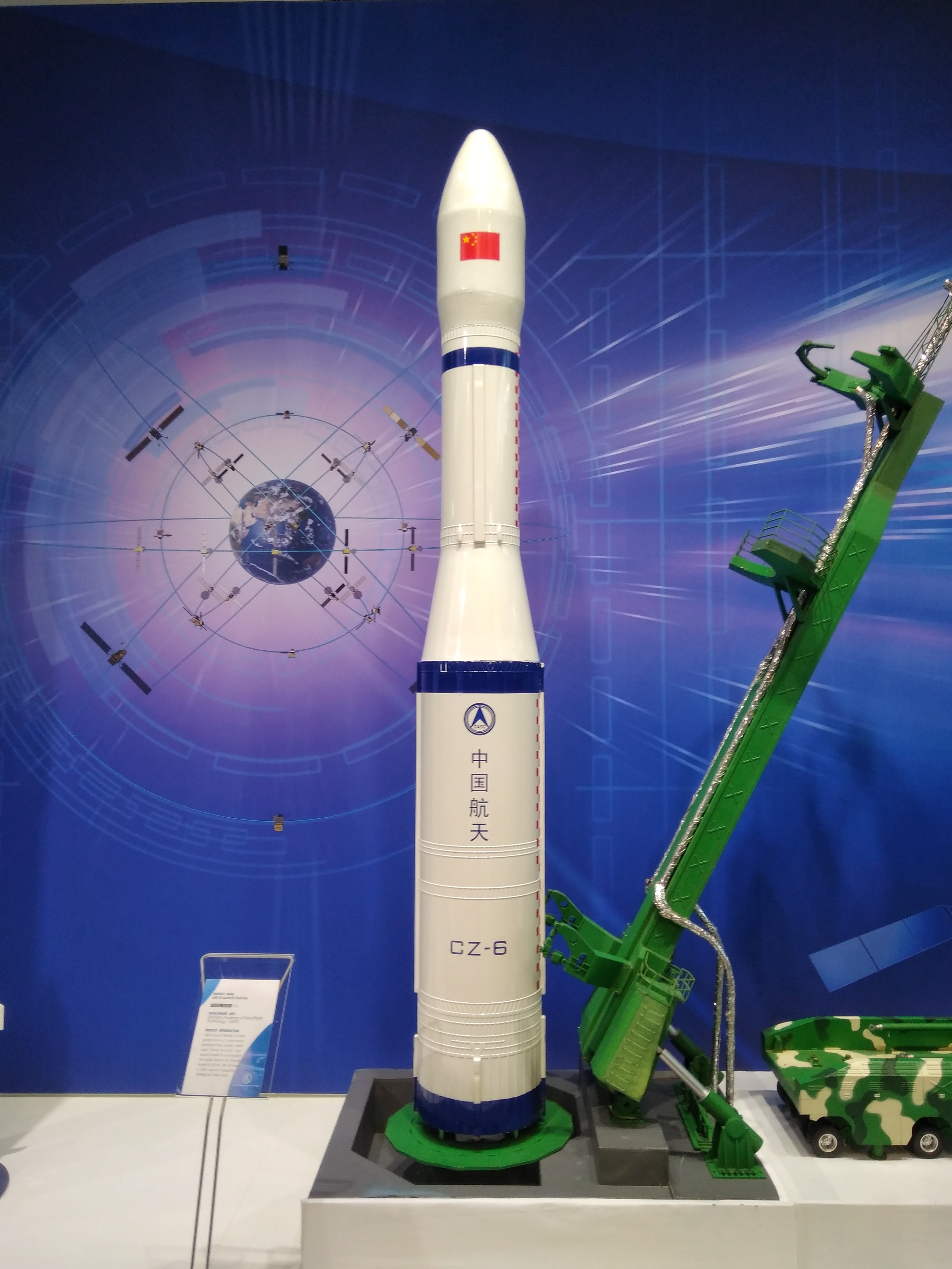 Model of the Chinese Long March / Chang Zheng 6 launcher on display at the International Astronautical Congress 2018 in Bremen, Germany